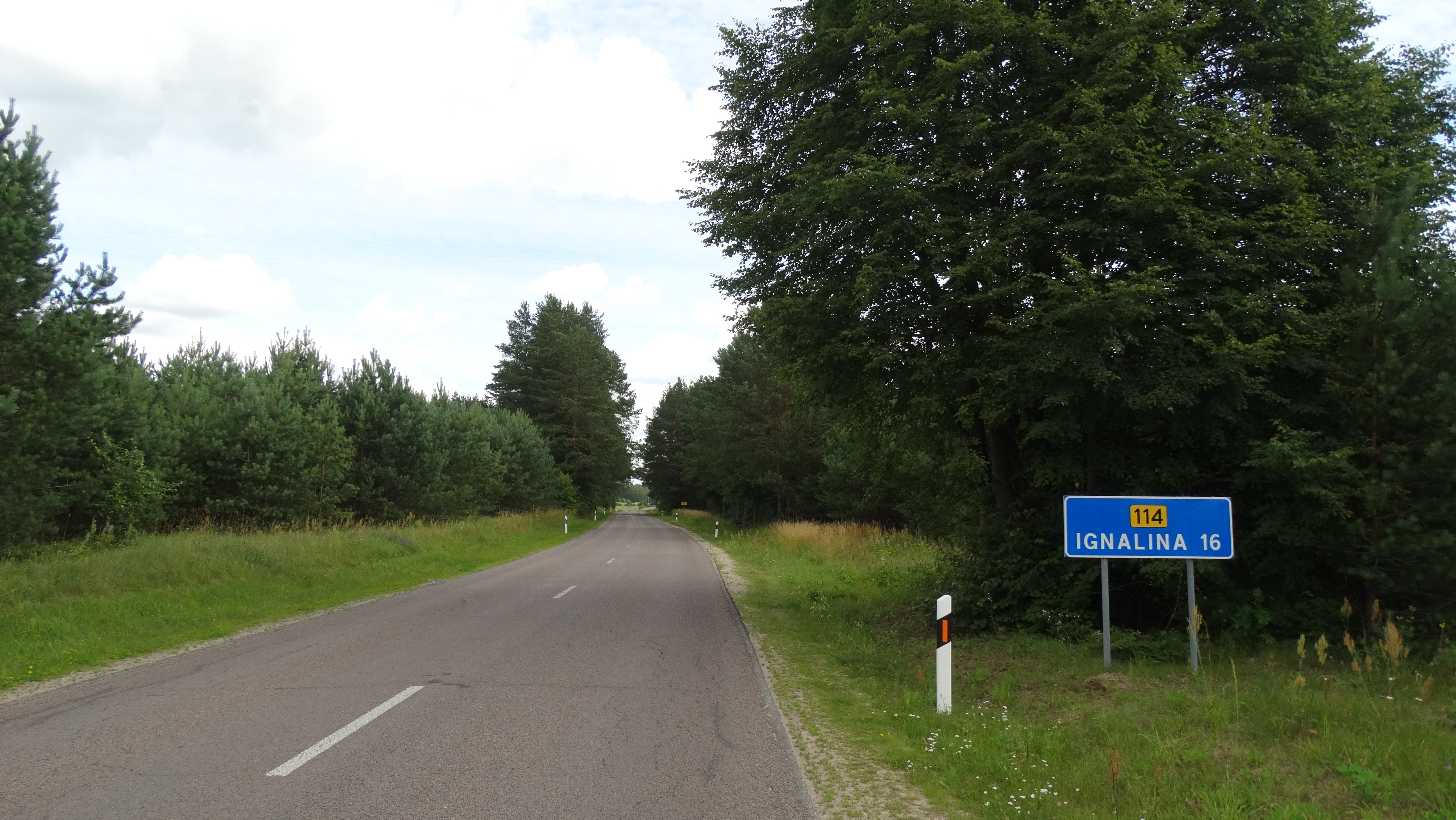 Road 114, Švenčionys district, Lithuania